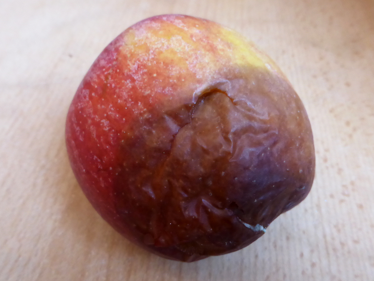 Apple (Braeburn)